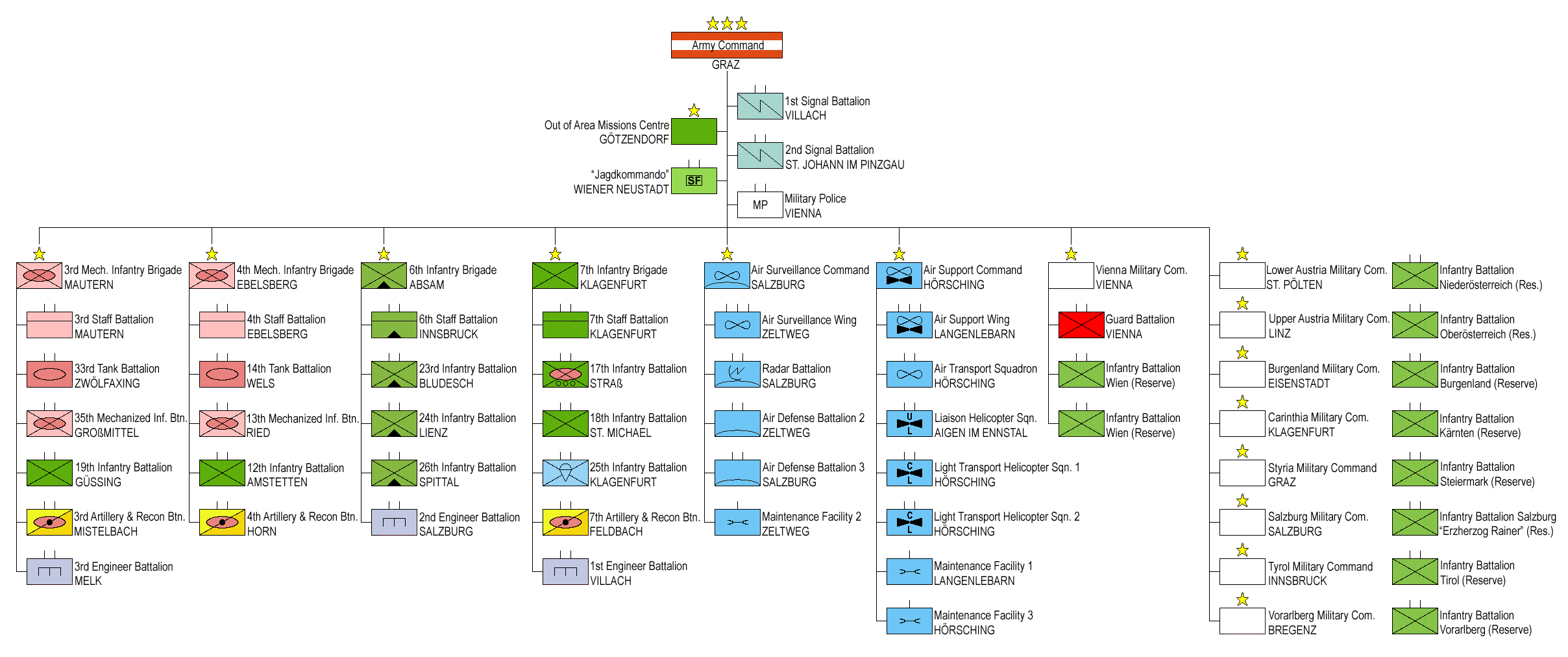 Structure of the Austrian Army